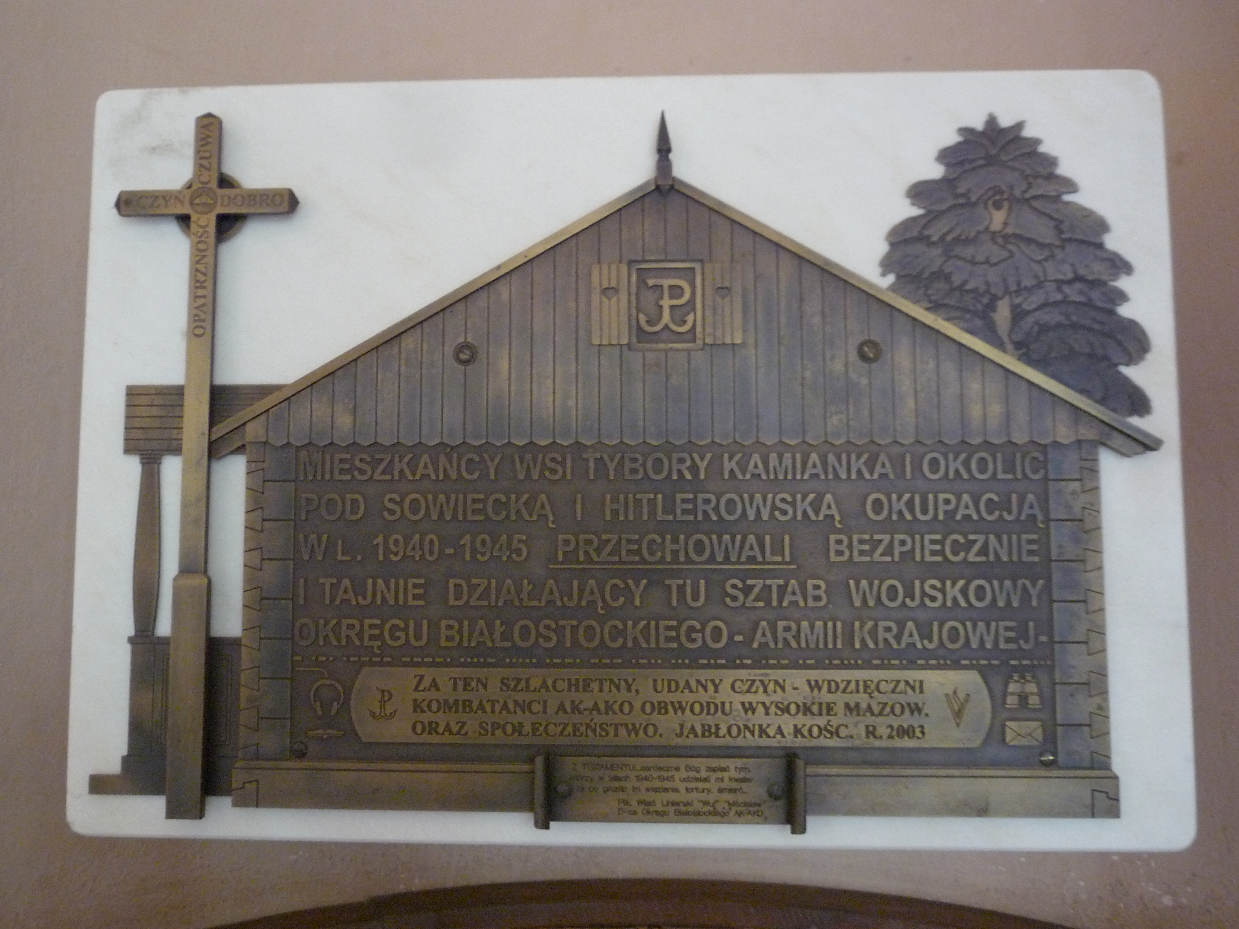 Memorial plaque in the parochial church in Jablonka Koscielna